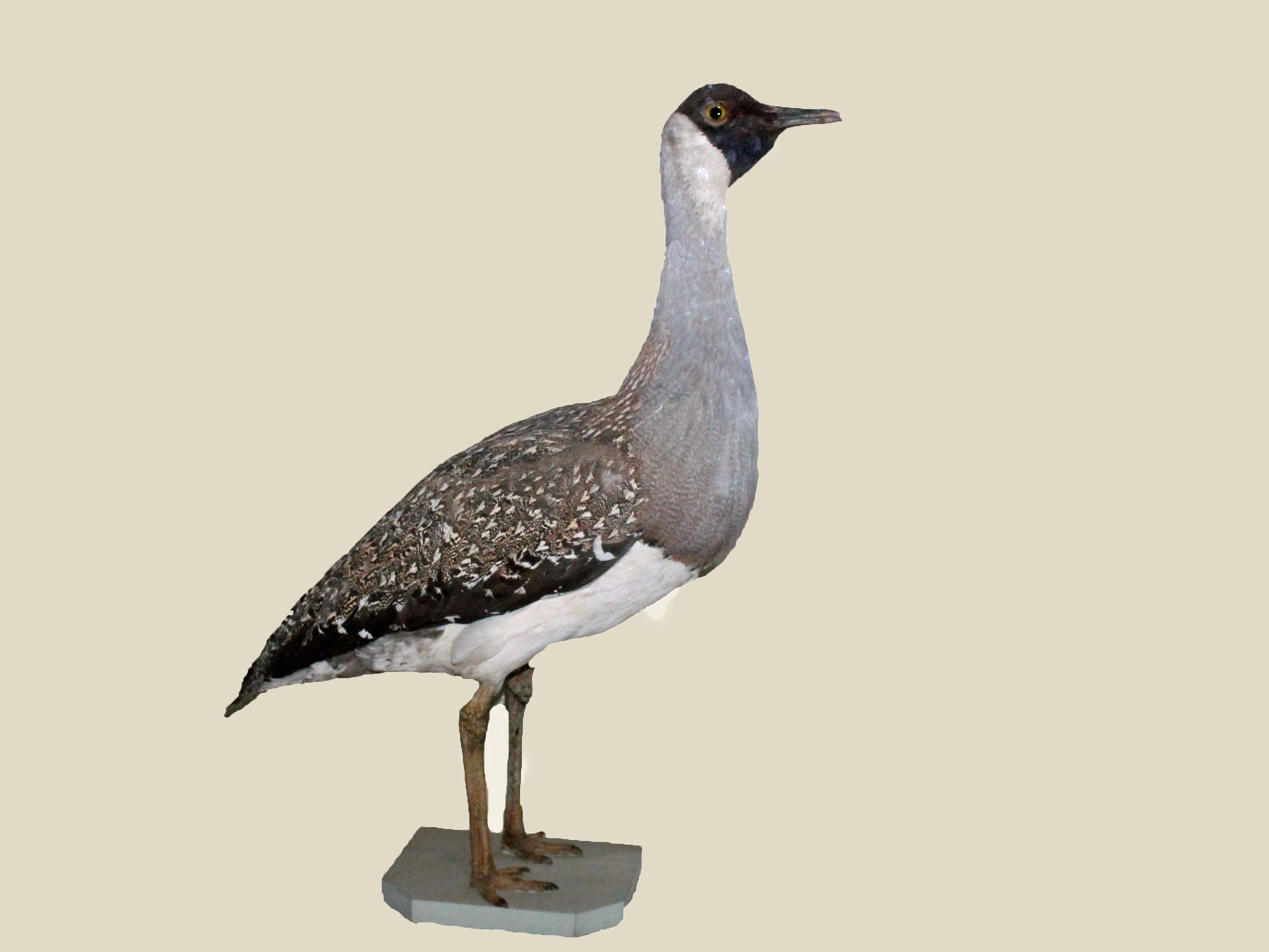 Heuglin's Bustard (Neotis heuglinii). Photograph of a specimen at Nairobi National Museum in Nairobi, Kenya.